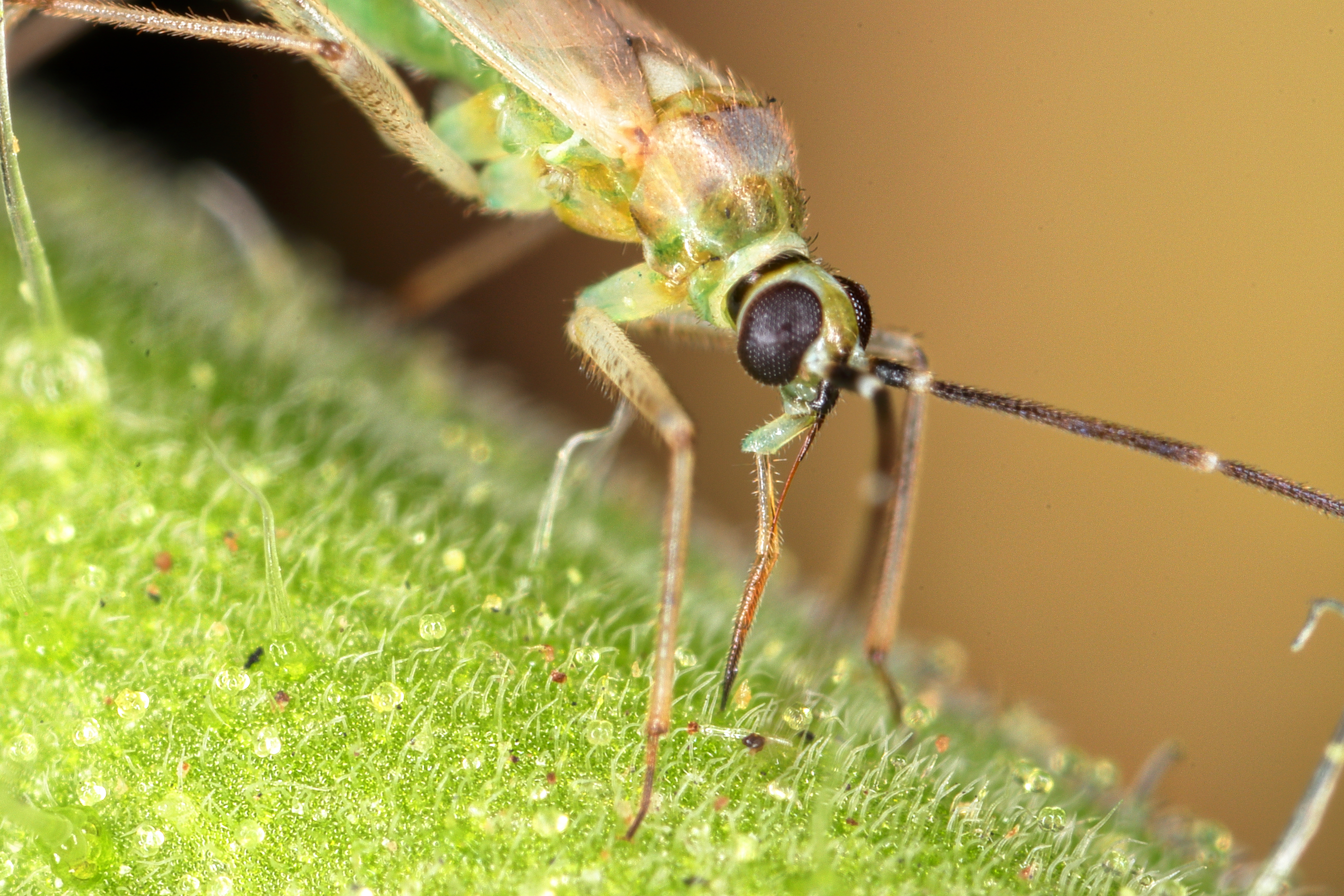 Close up of the tomato bug's (Engytatus modestus) head. It also shows the needle-like mouth part used to feed on the tomato plant sap. Insect size is about 6-7 mm.